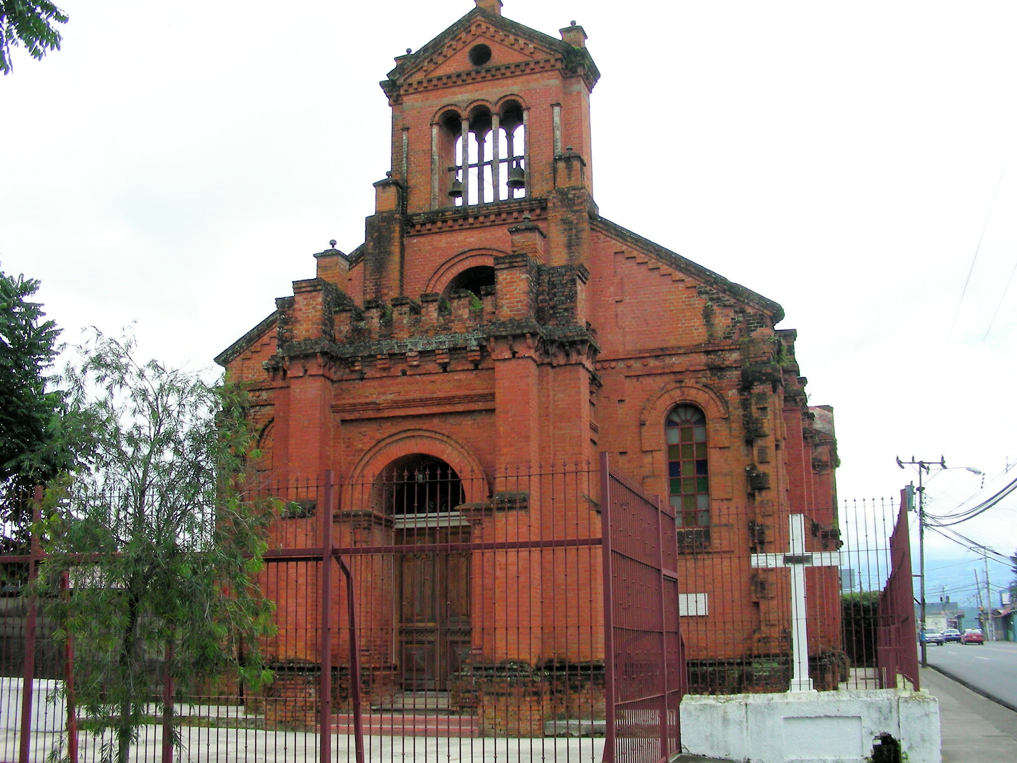 Brick Church, Saint Francis of Asis, San Francisco, Goicoechea, San José, Costa Rica.